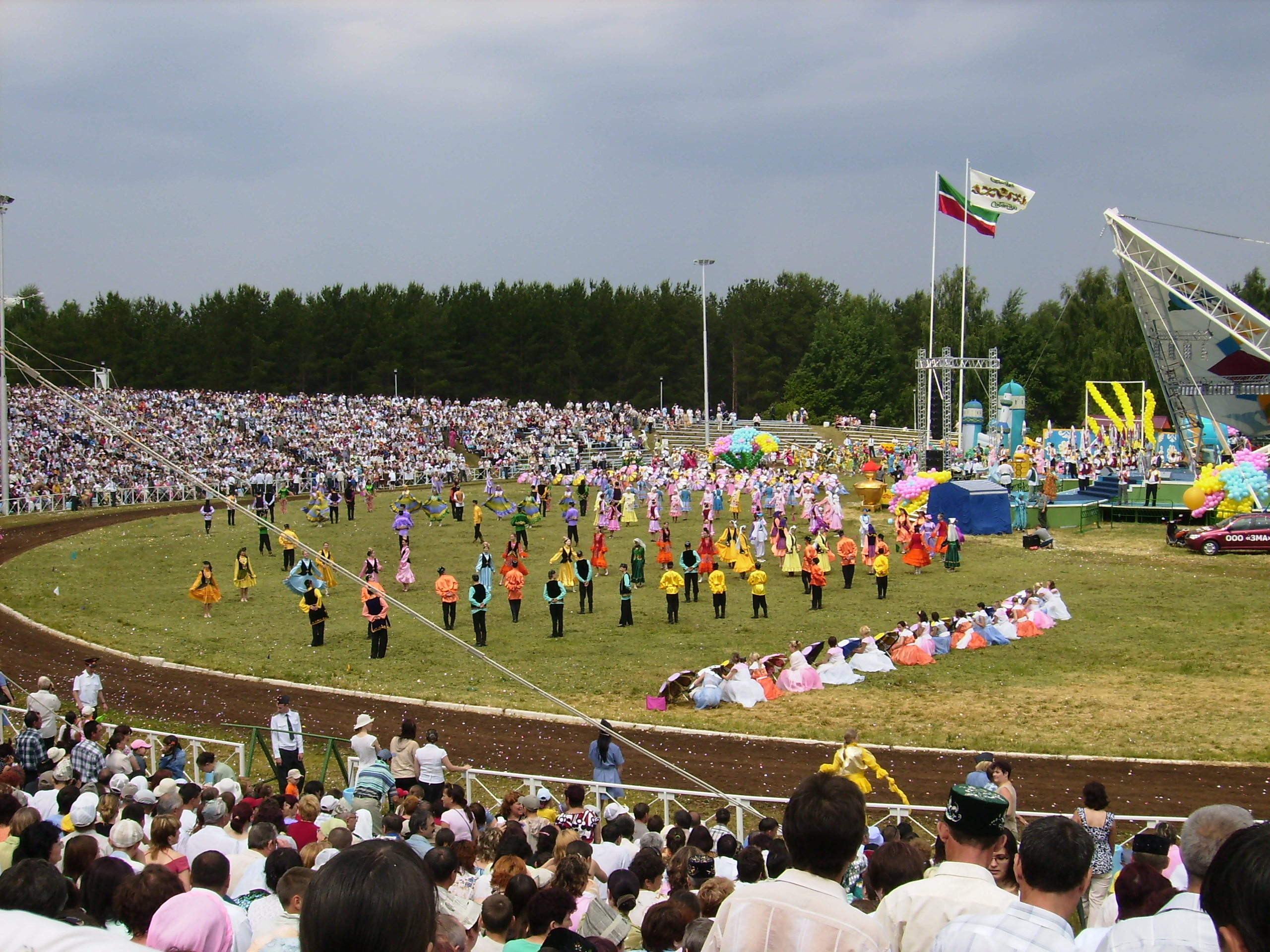 In the city of Naberezhnye Chelny is a national holiday Sabantuy.